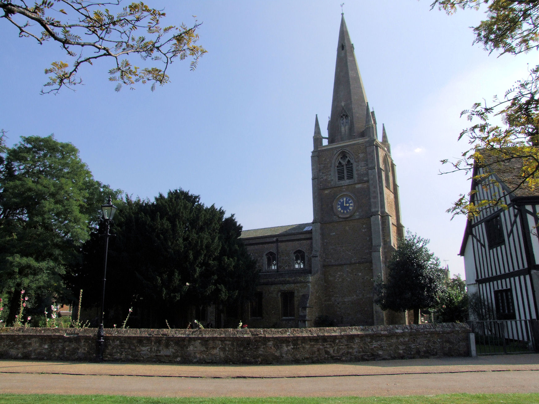 Ely's principal parish church is quite close to the Cathedral. some parts date back to about 1200.